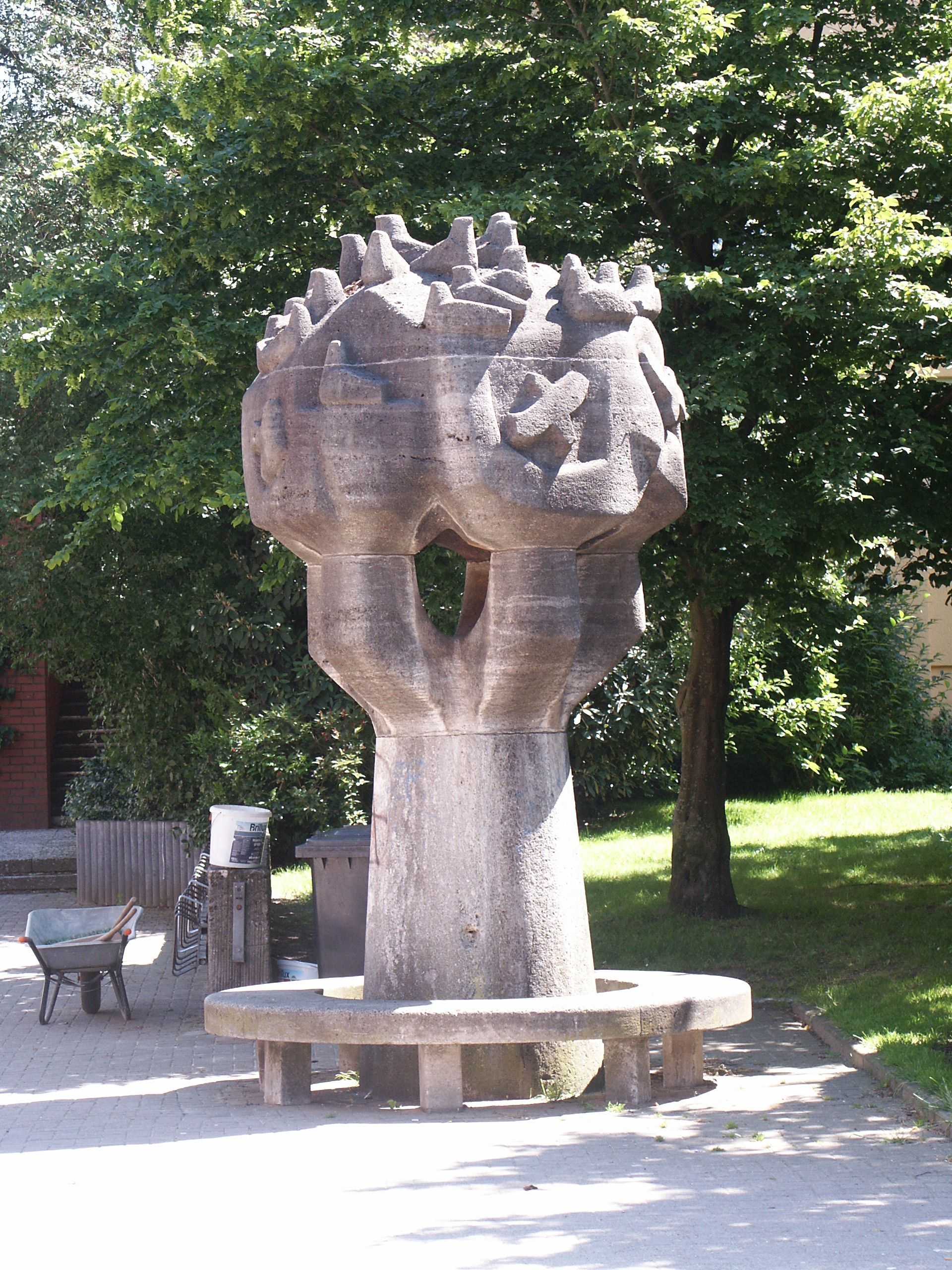 When I moved to Horn (a district of Hamburg) in August 2000, I soon discovered this sculpture which is often occupied by homeless people or alcoholized youths (that's just a fact). Several years later, I saw the (historic) TV news of November 1972 in which already then unemployed youths were sitting at this sculpture and actually taking drugs. I tried to find out several times the artist, the exact year of erection, or even its correct/official name but the whole research was in vain. Therefore, I named the waymark "Steinbaum Kroogblöcke" (literally: stone tree Kroogblöcke, just named after what you see and the location where it stands).